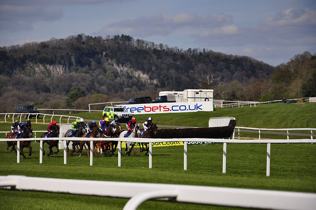 Chepstow Racecourse First time past the stands, another lap to go. In the distance can be seen Wynd Cliff.